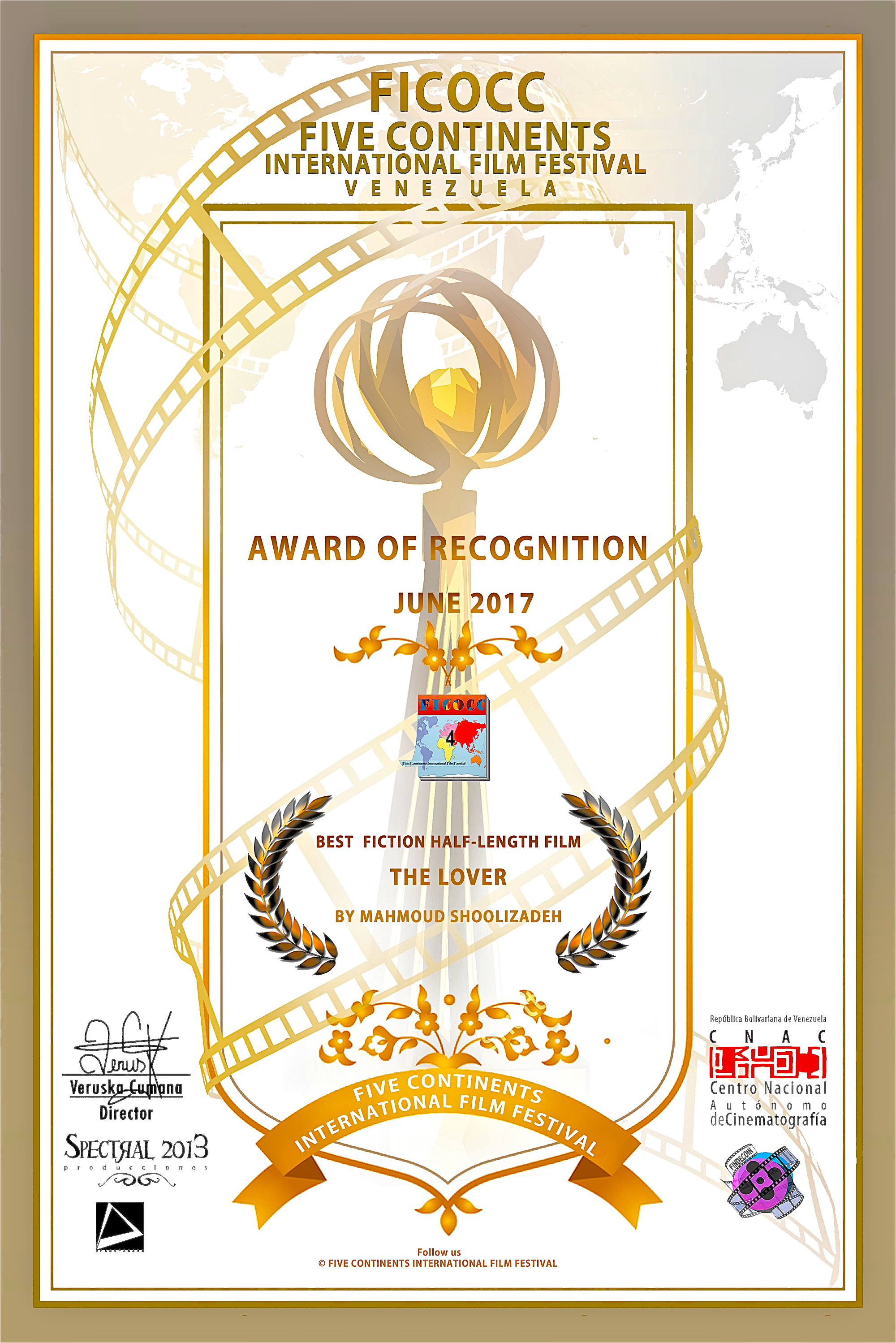 Best Fiction Half-Length Film Award certificate for The Lover, directed by Mahmoud Shoolizadeh, at the Five Continents International Film Festival, Puerto La Cruz, Venezuela, June 2017